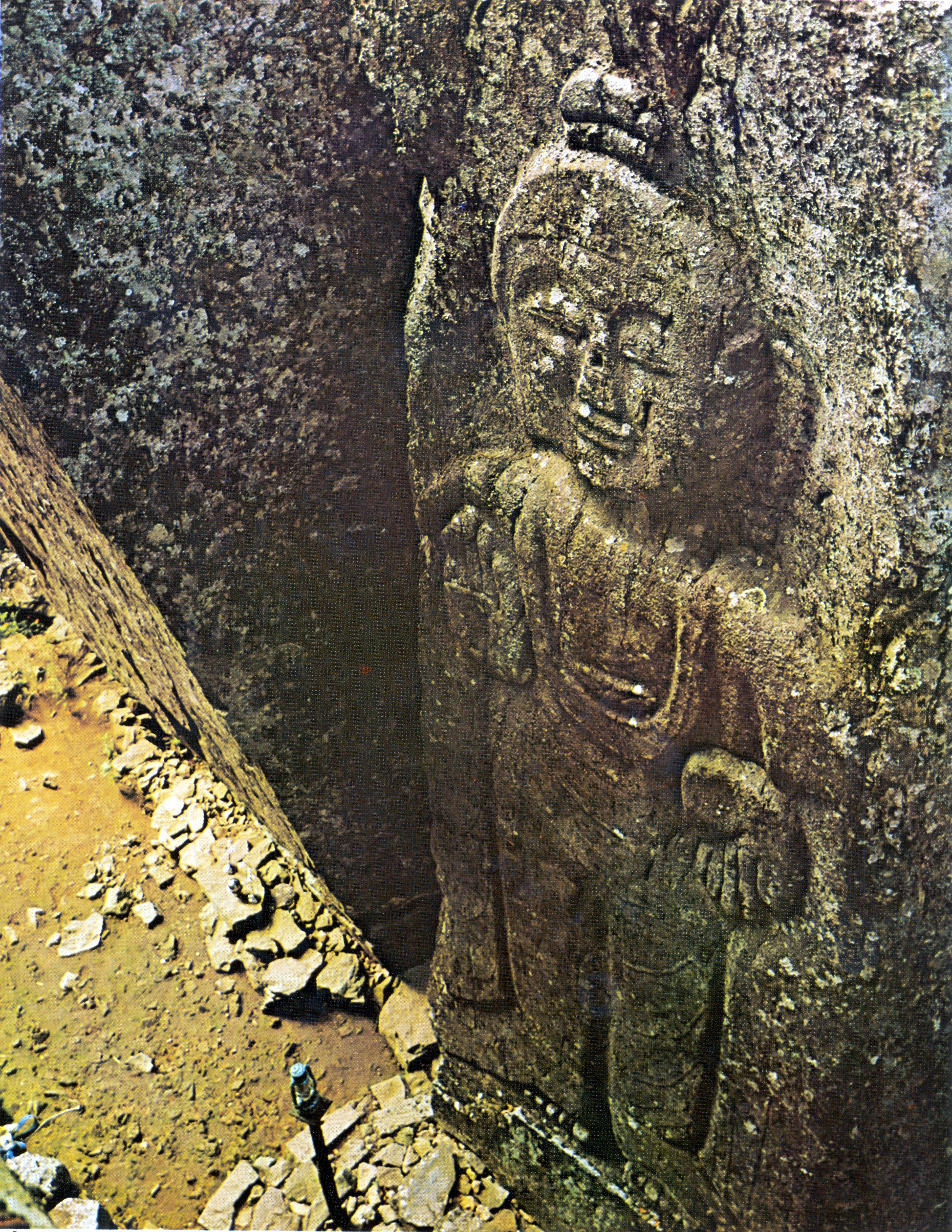 Rock-carved Buddha statues at Sinseonsa temple in Danseoksan mountain, Gyeongju